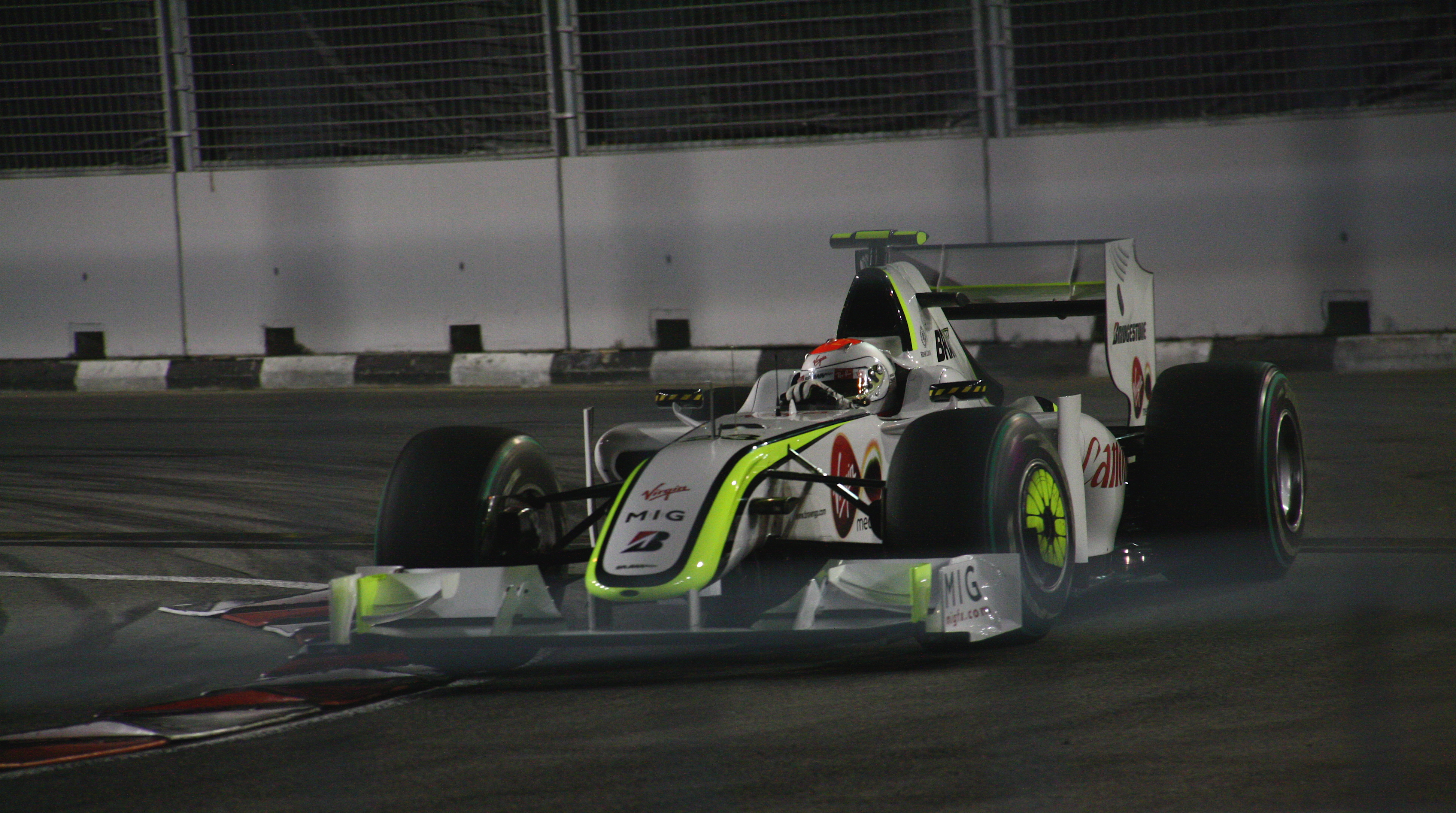 Rubens Barrichello driving for Brawn GP at the 2009 Singapore Grand Prix.